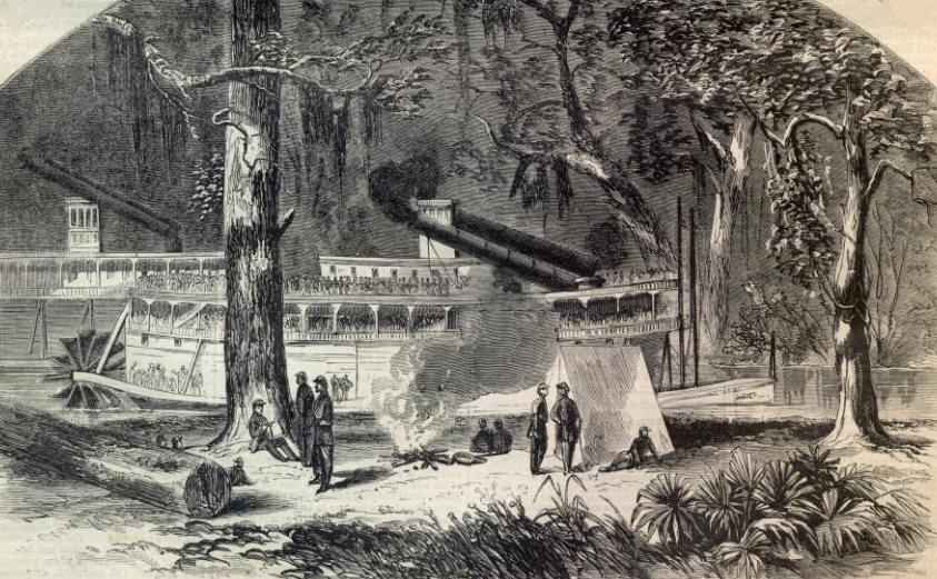 Wood engraving, Bayou Navigation in Dixie, illustration from Harper's Weekly newspaper of New York dated April 11, 1863 (front cover)